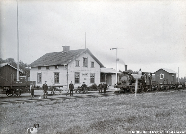 The railway station in Karlslund, Örebro, Sweden, 1890